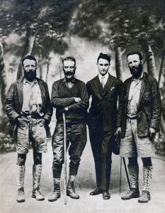 Theodore Roosevelt Jr. (left), Charles Suydam Cutting, and Kermit Roosevelt (right) with U.S. Consul Culver B. Chamberlain, 1929 Kunming, Yunnan Province Courtesy of the Print Collection, Miriam and Ira D. Wallach Division of Art, Prints and Photographs, The New York Public Library, Astor, Lenox and Tilden Foundations, 2007057